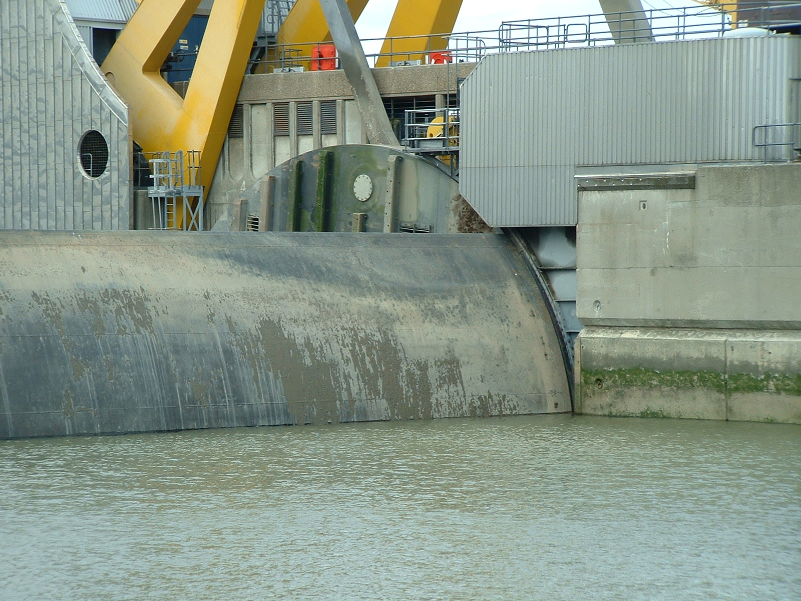 Thames Barrier